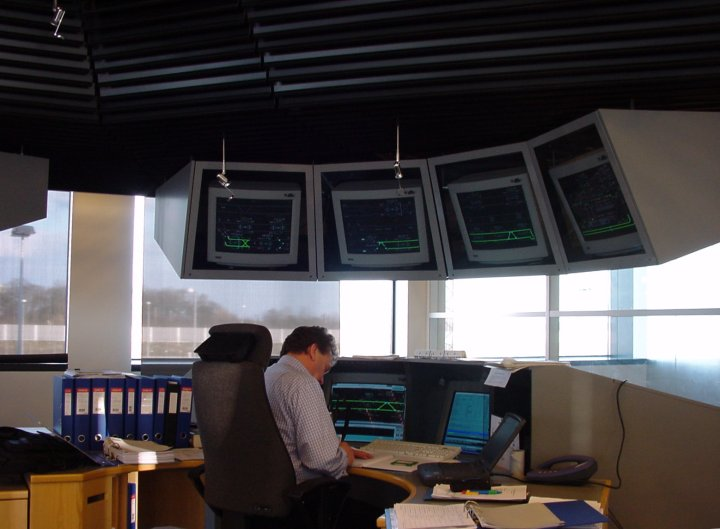 Metro Kopenhagen, control tower